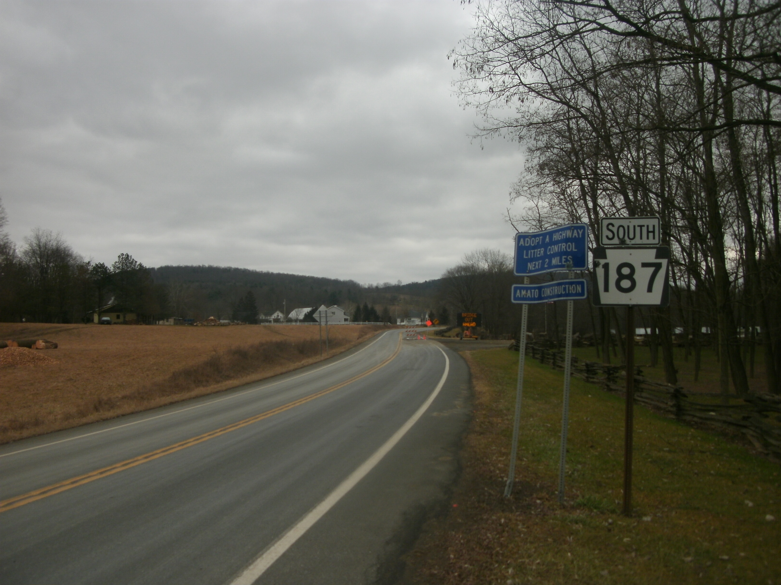 Route 187 southbound at the Pennsylvania – New York state line near Nichols, New York.